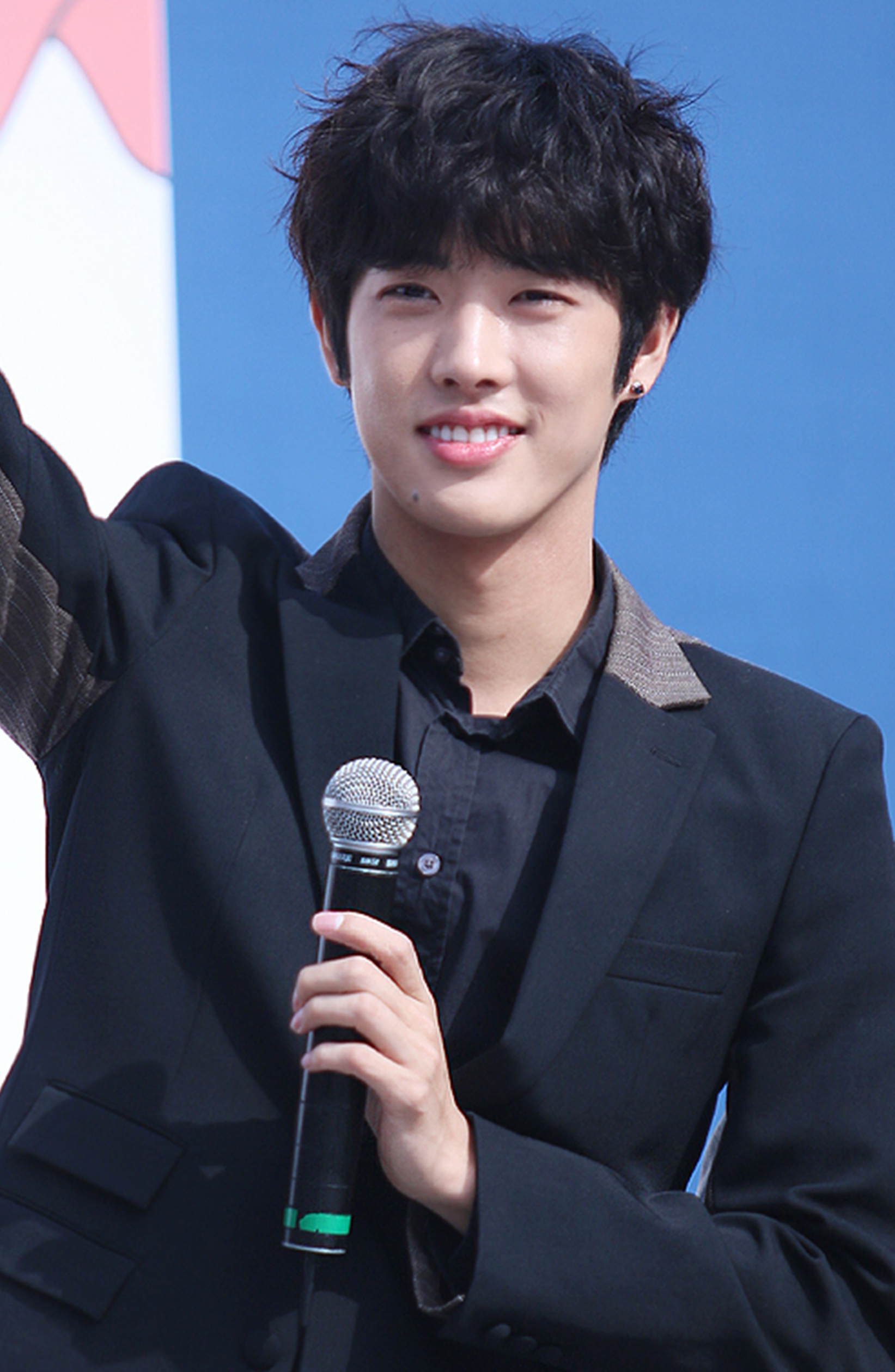 Takuya Terada at a fanmeet in Gwanghwamun on October 19, 2014.